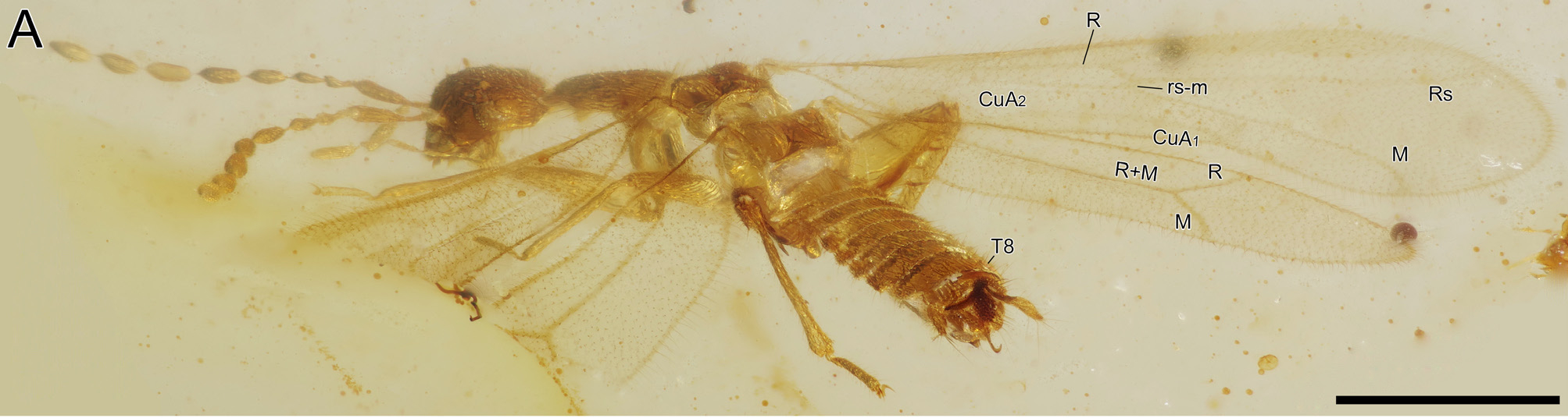 Zorotypus pecten, holotype (BUB2809). A: Habitus in posterodorsal view. Scale = 0.5 mm